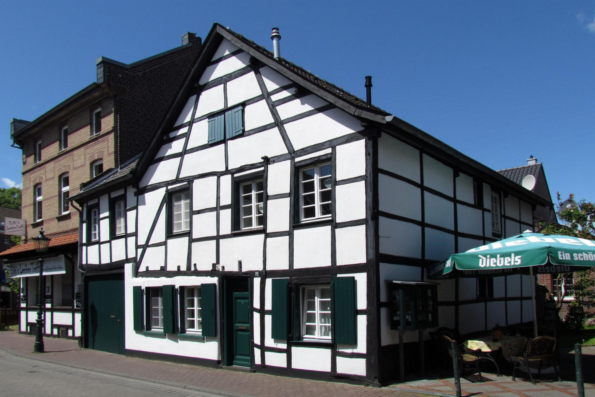 This is a photograph of an architectural monument.It is on the list of cultural monuments of Korschenbroich